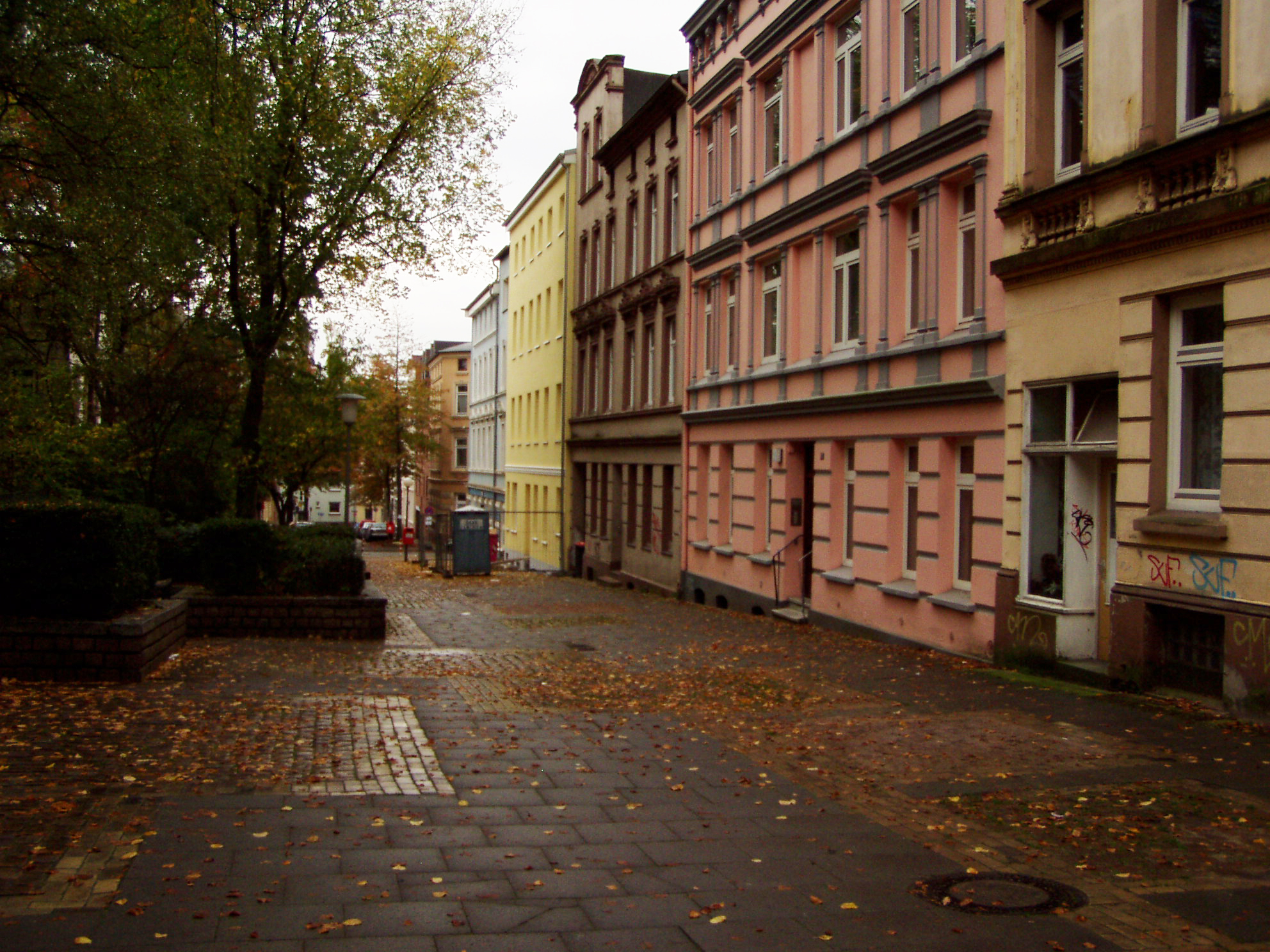 The street "Gerade Straße" in the "Phoenix-Viertel"-district in Hamburg